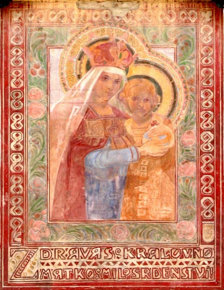 Sgraffito and fresco of the Czech academic painter Jano Köhler, church at Kyjov, Czech republic, from year 1910.